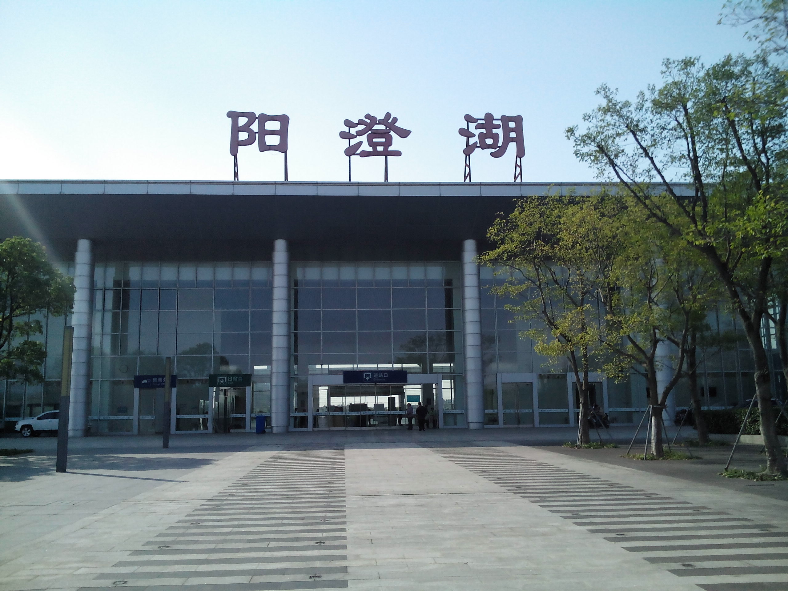 Facades of Yangchenghu Railway Station